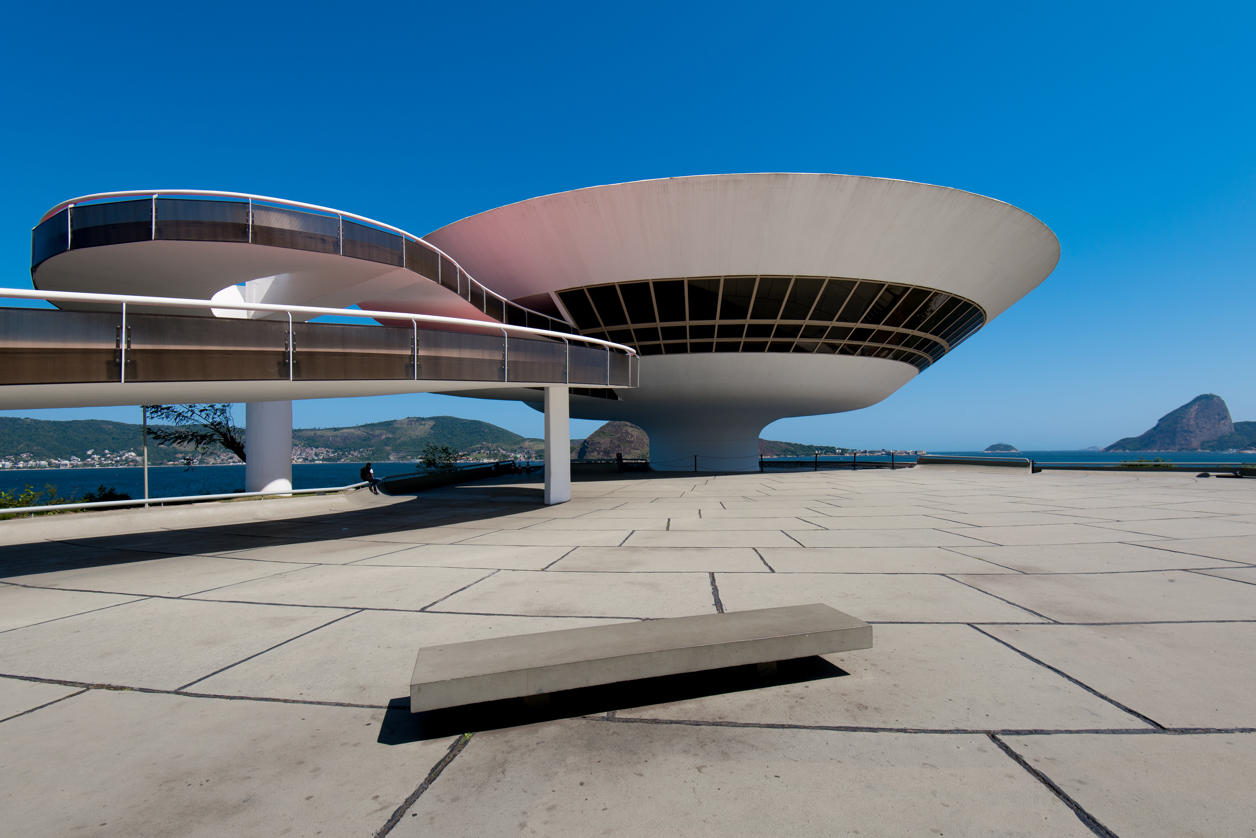 Famous building by Oscar Niemeyer. Cultural property Niterói Contemporary Art Museum, Niterói, Rio de Janeiro, Brazil Q1573239, VIAF ID: 138115194, Library of Congress authority ID: n98910632, P727: iPatrimônio ID: niteroi-museu-de-arte-contemporanea-mac, Itaú Cultural ID: instituicao109820/museu-de-arte-contemporanea-de-niteroi-mac-niteroi